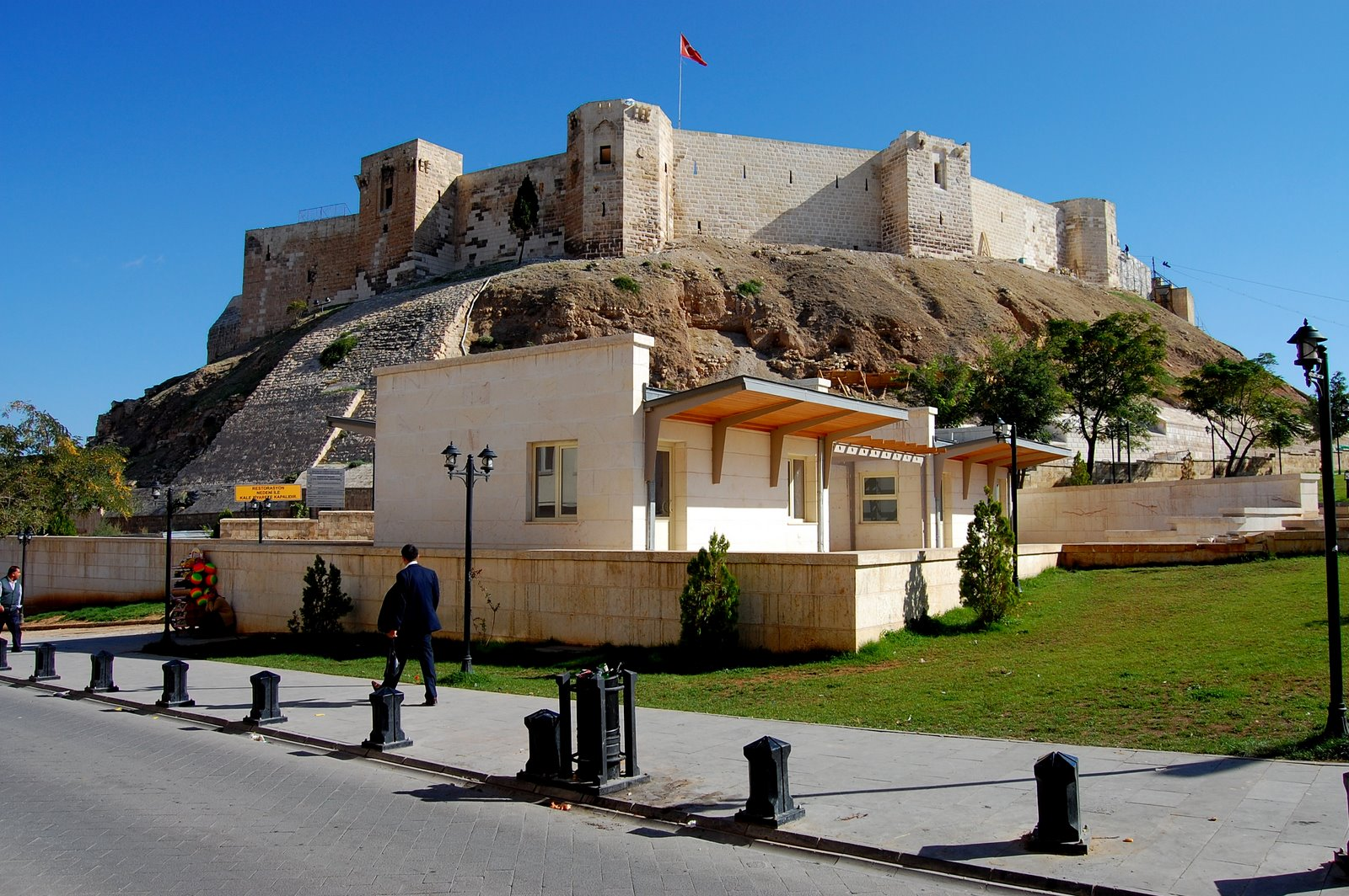 The Castle (Kale) of Gaziantep, Turkey